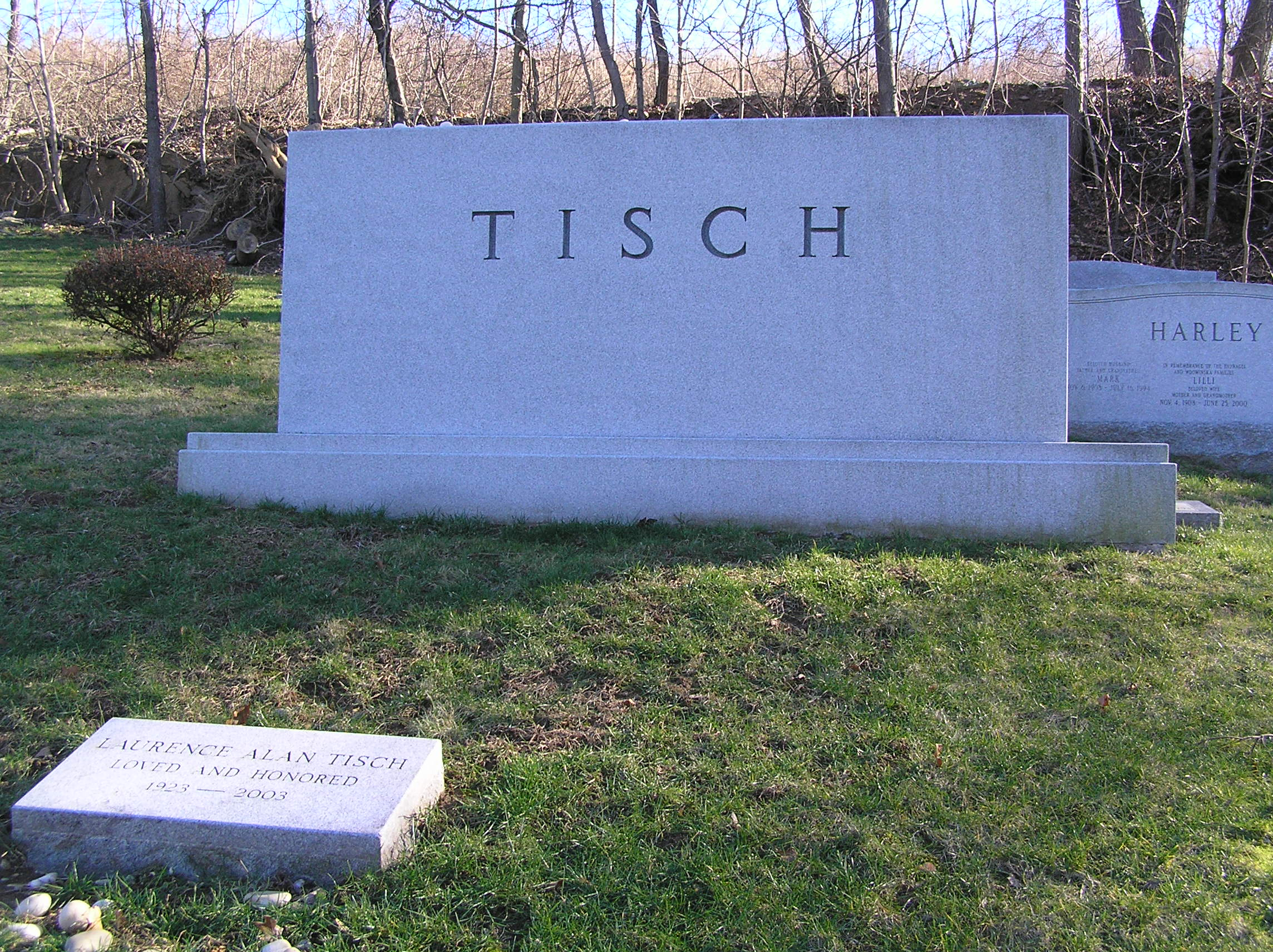 I took this photograph of the grave of Laurence Tisch in Westchester Hills Cemetery on January 2, 2007. GNU Free Documentation License